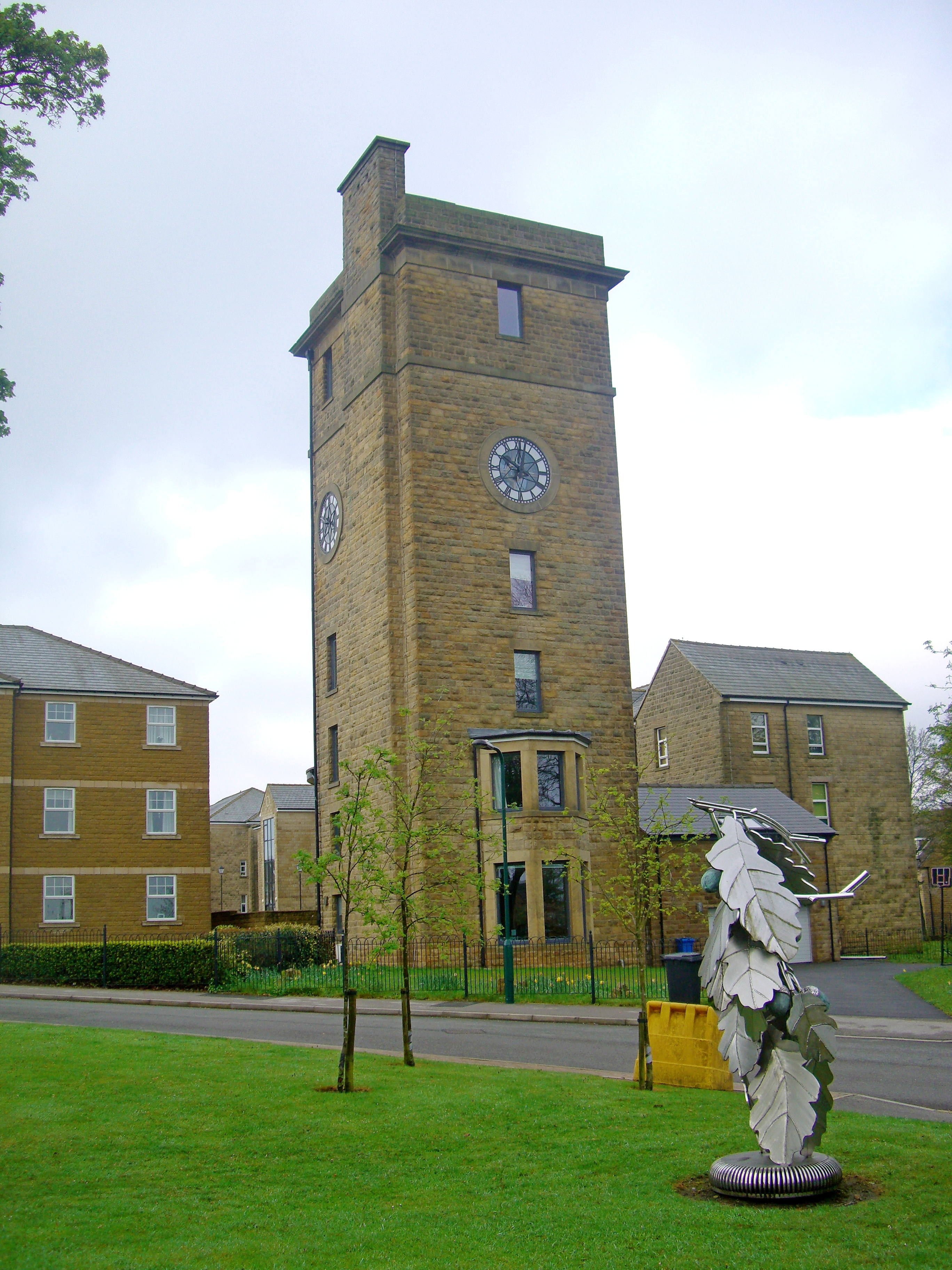 The tower from the former Lodge Moor Hospital which has been converted into apartments within a new housing estate.